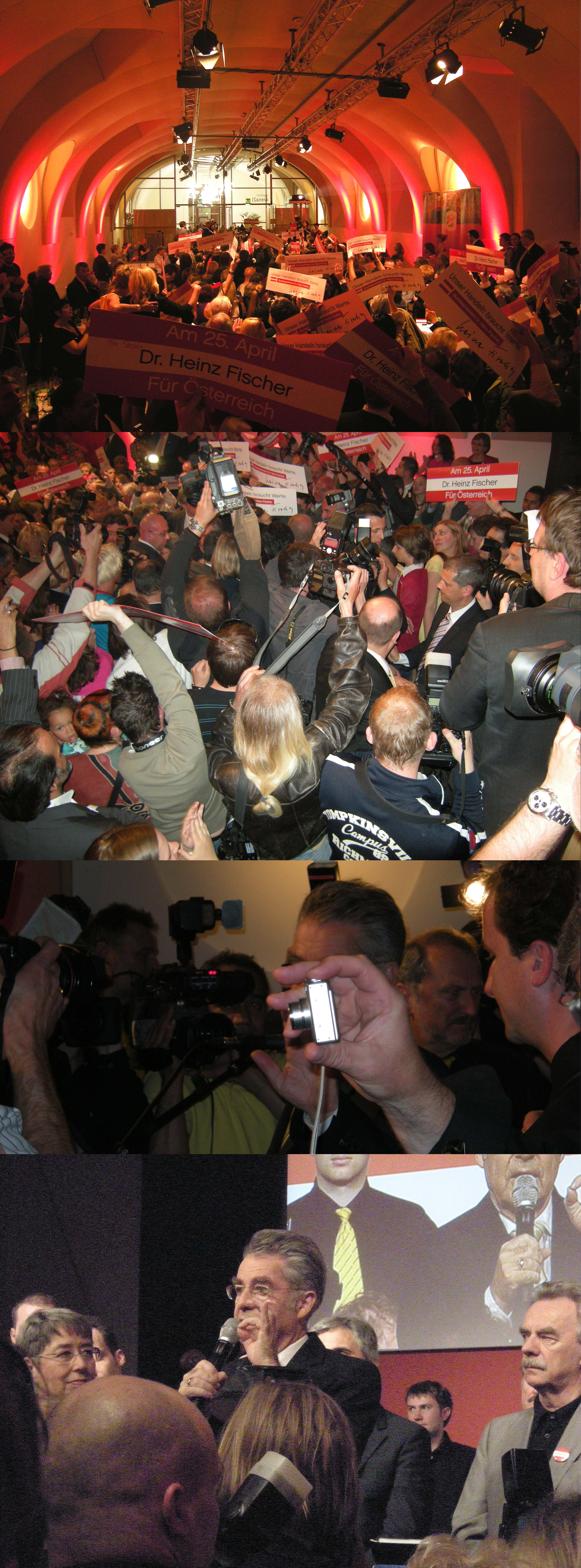 Austrian federal president's Dr. Heinz Fischer, re-election party. It happened in so-called 'oval hall' of Vienna's MQ. Admitteldy, there was a shockingly low voter turnout, due to several reasons: It was obvious that Mr. Fischer would win. Austrian presidents running for a second term of office won eversince. The only other major Party, ÖVP [Fischer comes from opposite SPÖ, although his membership is resting since he became president], did not nominate a candidate, nor endorsed any of the eventually three candidates; some prominent persons from ÖVP, inoffically, but in public, even suggested to vote 'null and void', which did some ~7% of the voters. There was extremely fine weather on that day, after a long time of bad weather, which might have seduced some people to stay in the sun instead of voting. It's Austria. ;)) Frames 1=Arrival of Mr. president. 2=Obvious. 3=Some difficulty for wikipedian photographer. 4=From left: First Lady - The President - Mr. Bruno Aigner, president's press information officer. Note that camera's EXIF time stamp is set to UTC, which is local CEST-2.